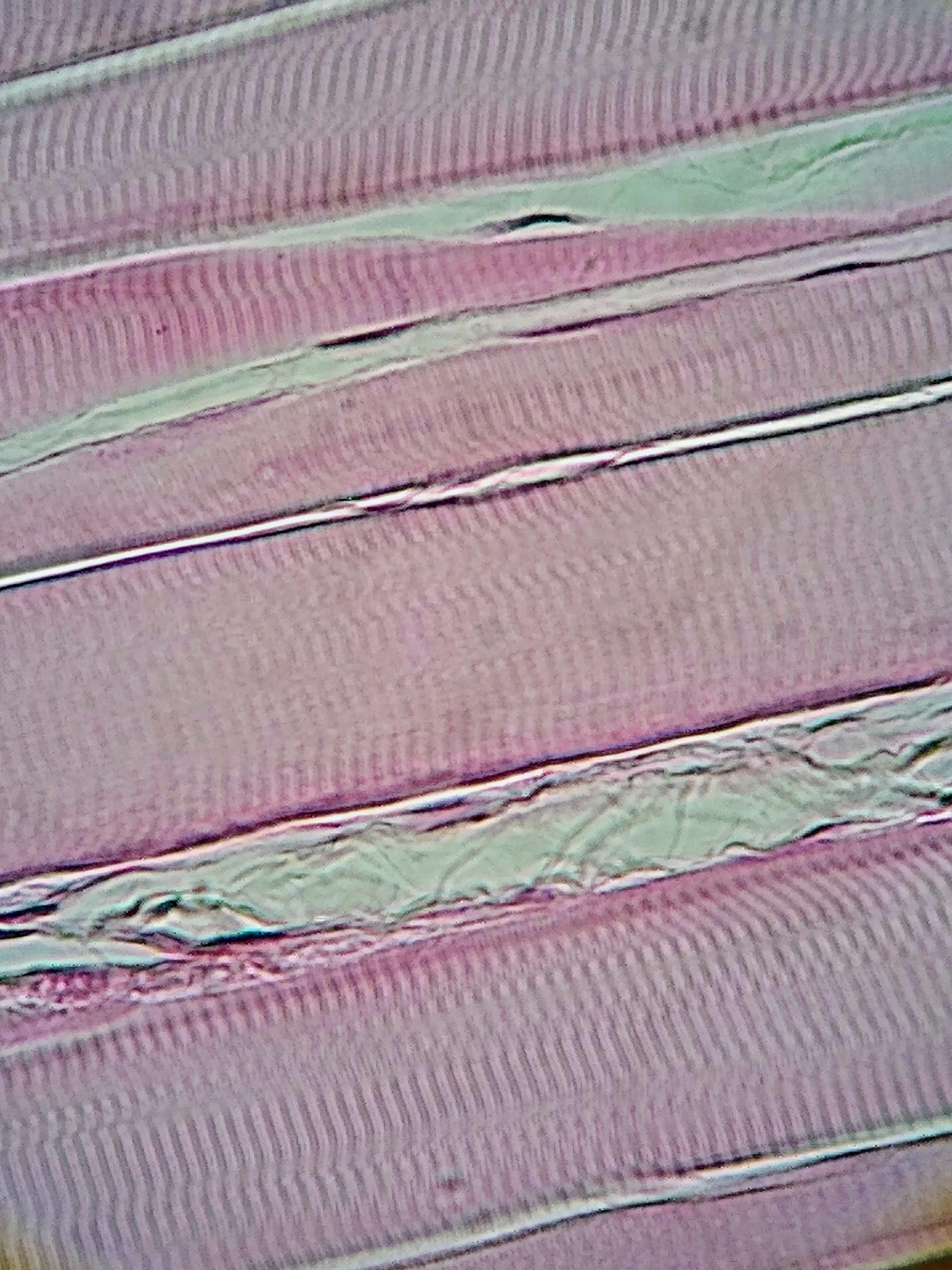 Photo of skeletal muscle seen in light microscope at 400x magnification